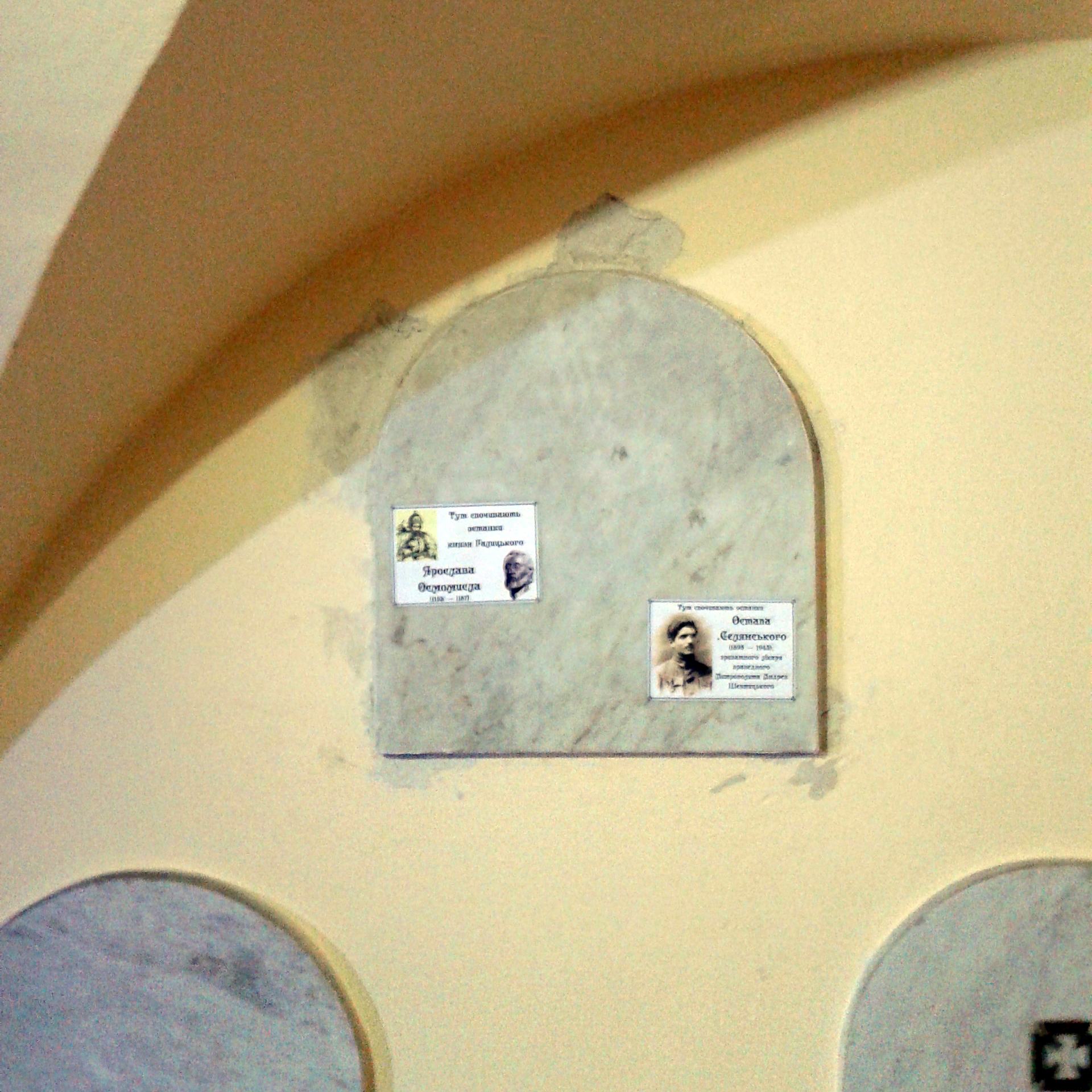 Yaroslav Osmomysl tomb in St. George's Cathedral, Lviv taken in 2017